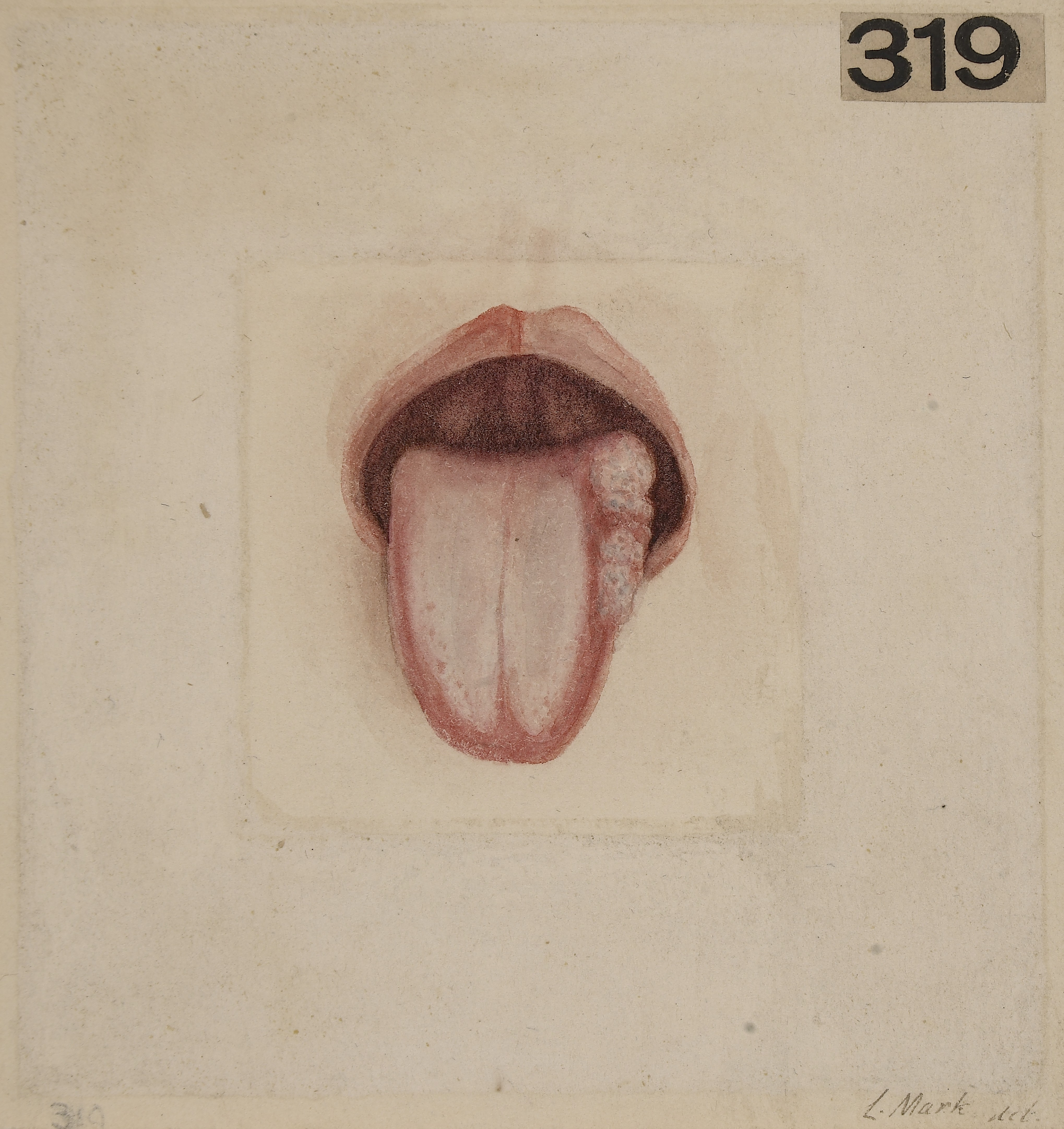 Watercolour drawing of a lymphangioma occurring on the left side of the tongue of a boy aged five. The growth consisted of a number of small vesicles filled with a clear fluid. Medical Photographic Library Keywords: Mark, Leonard Portal